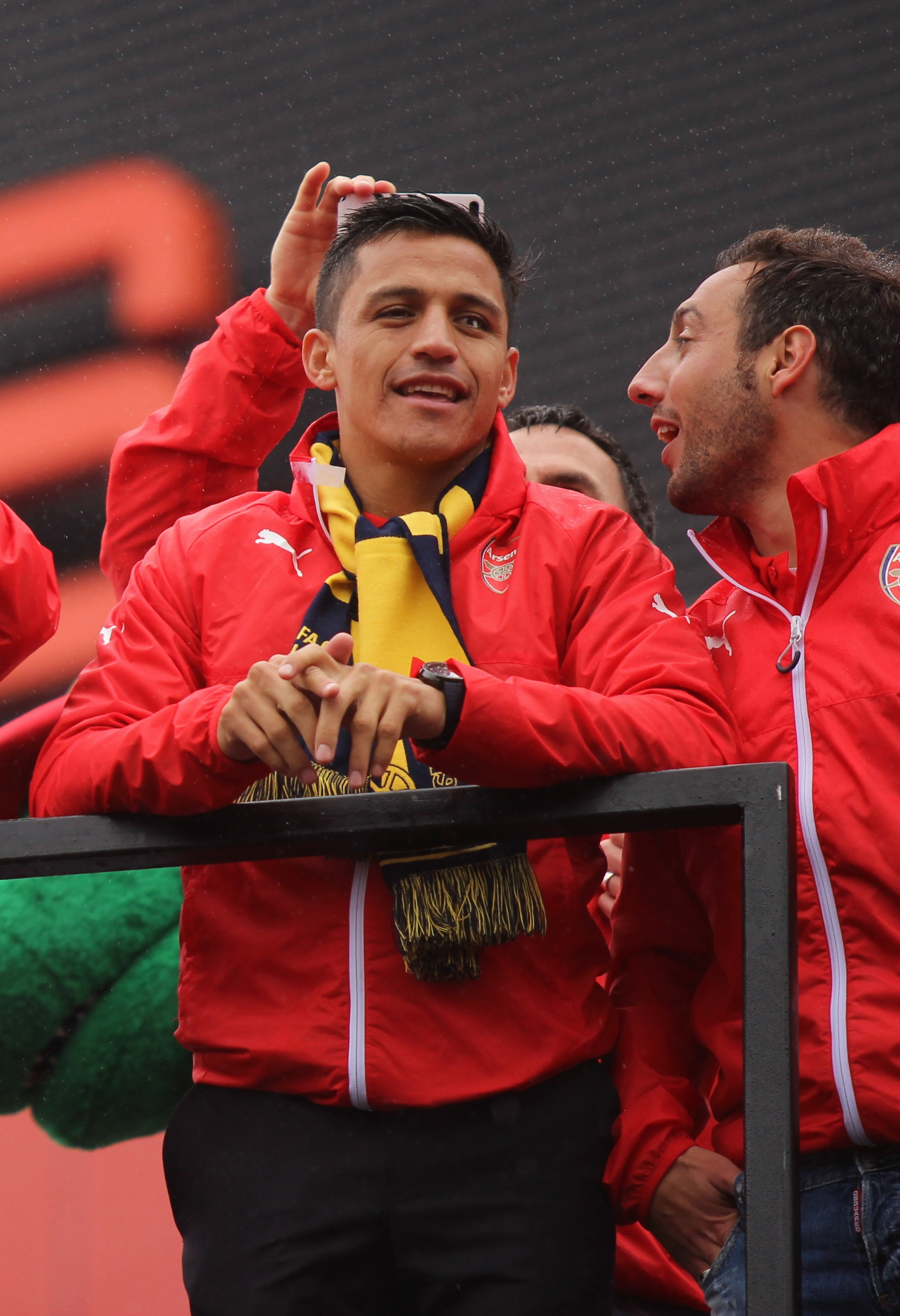 Alexis Sanchez of Arsenal during the FA Cup Parade.